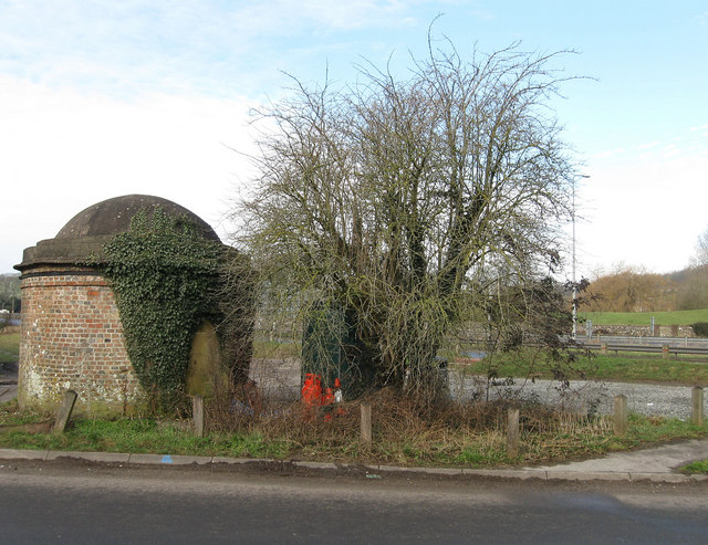 Ashcombe Toll House. Curious relic from the age of the turnpike. Located at the original junction of the A27 and Ashcombe Hollow, the former has been moved few yards to the north the latter to the right has now been blocked off and a new route takes the lane down to Ashcombe Farm Roundabout. Originally there was a pair but the northern one has been lost to road widening. The existence of fireplaces within the structure has lead some to believe this was the domestic part of the tollgate, the collection area having been lost over time. A door is on the northern side and there are two windows either side, the roof was originally bricked in a circular fashion but was stolen in the 1940s before East Sussex County Council restored it in the 1950s. The tollgate opened in 1820 and probably went into disuse when the turnpike was wound up in 1871, after that ownership became a little blurred and was claimed by Sussex Heritage Society in 1996 and has never been contested. See link for inside views [1]